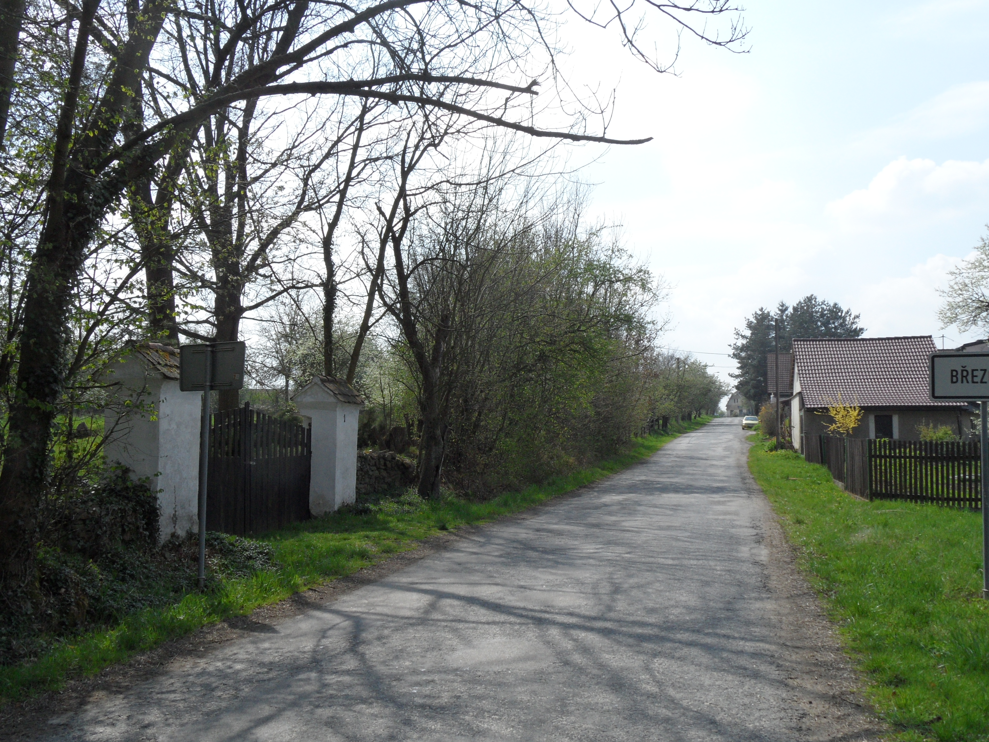 Březová (Úmonín) A. View from East (Direction from Úmonín), Kutná Hora District, the Czech Republic.